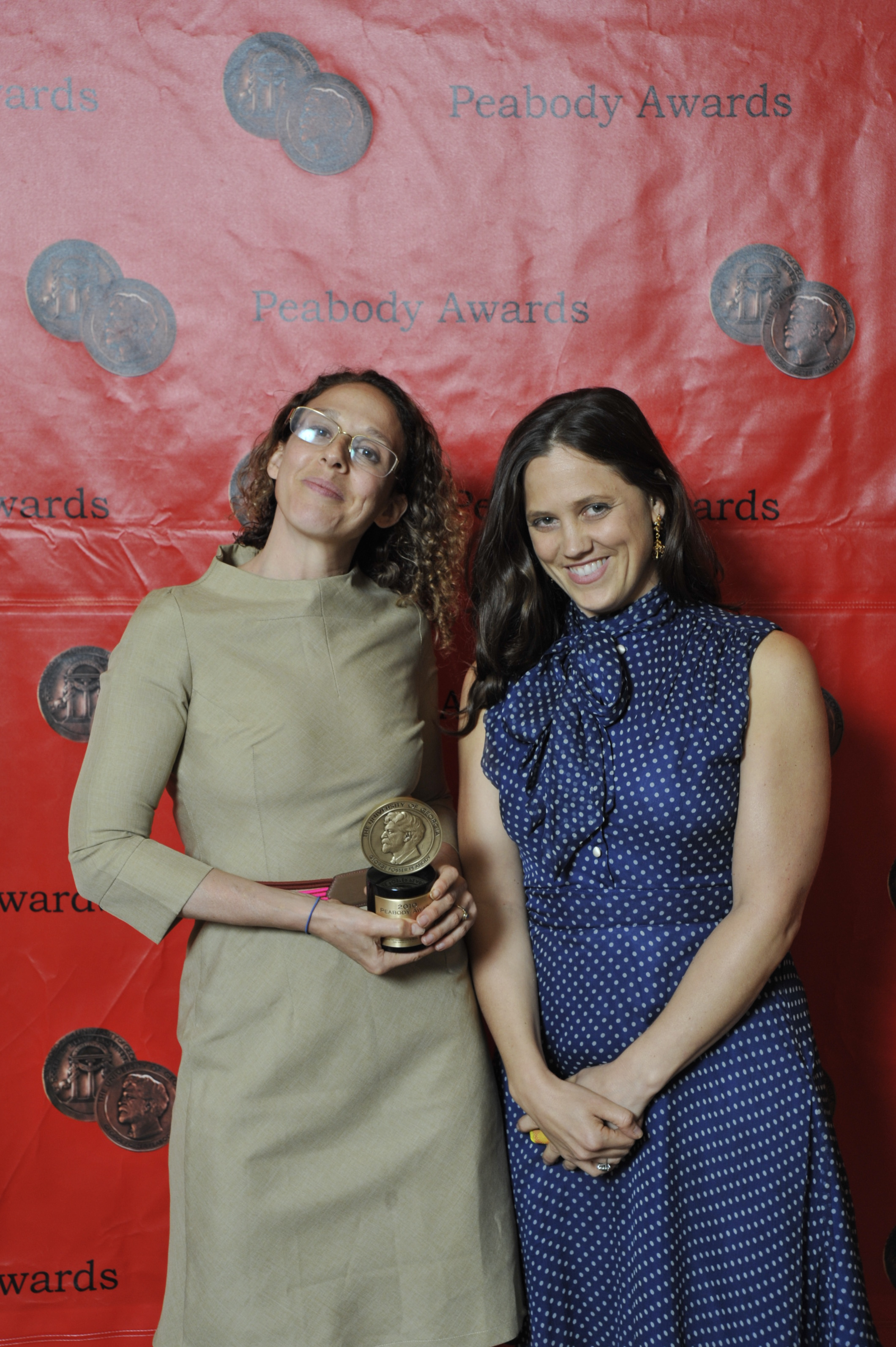 PHOTO CREDIT: ANDERS KRUSBERG / PEABODY AWARDS Rachel Grady and Heidi Ewing 70th Annual Peabody Awards Luncheon Waldorf=Astoria Hotel May 23, 2011